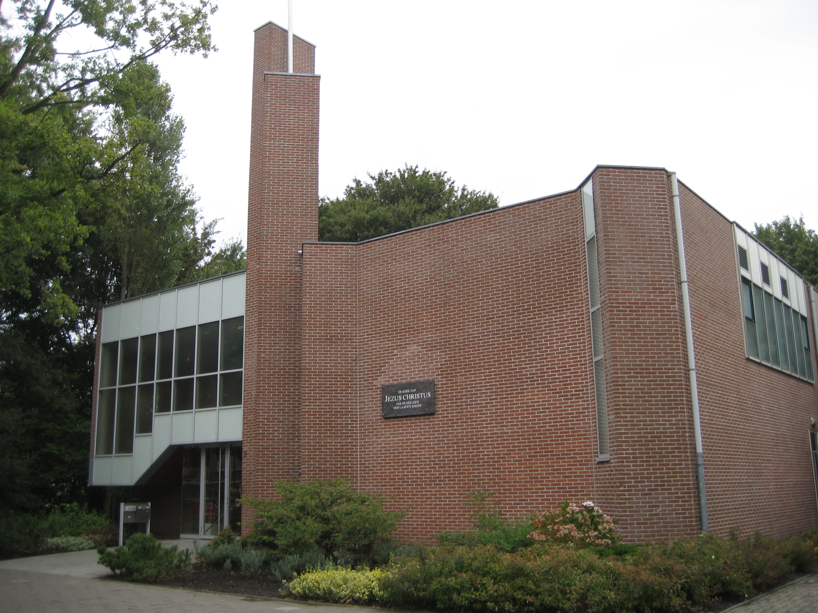 A meetinghouse of The Church of Jesus Christ of Latter-day Saints in Leiden, The Netherlands (Brahmslaan 2, 2234 AM Leiden)